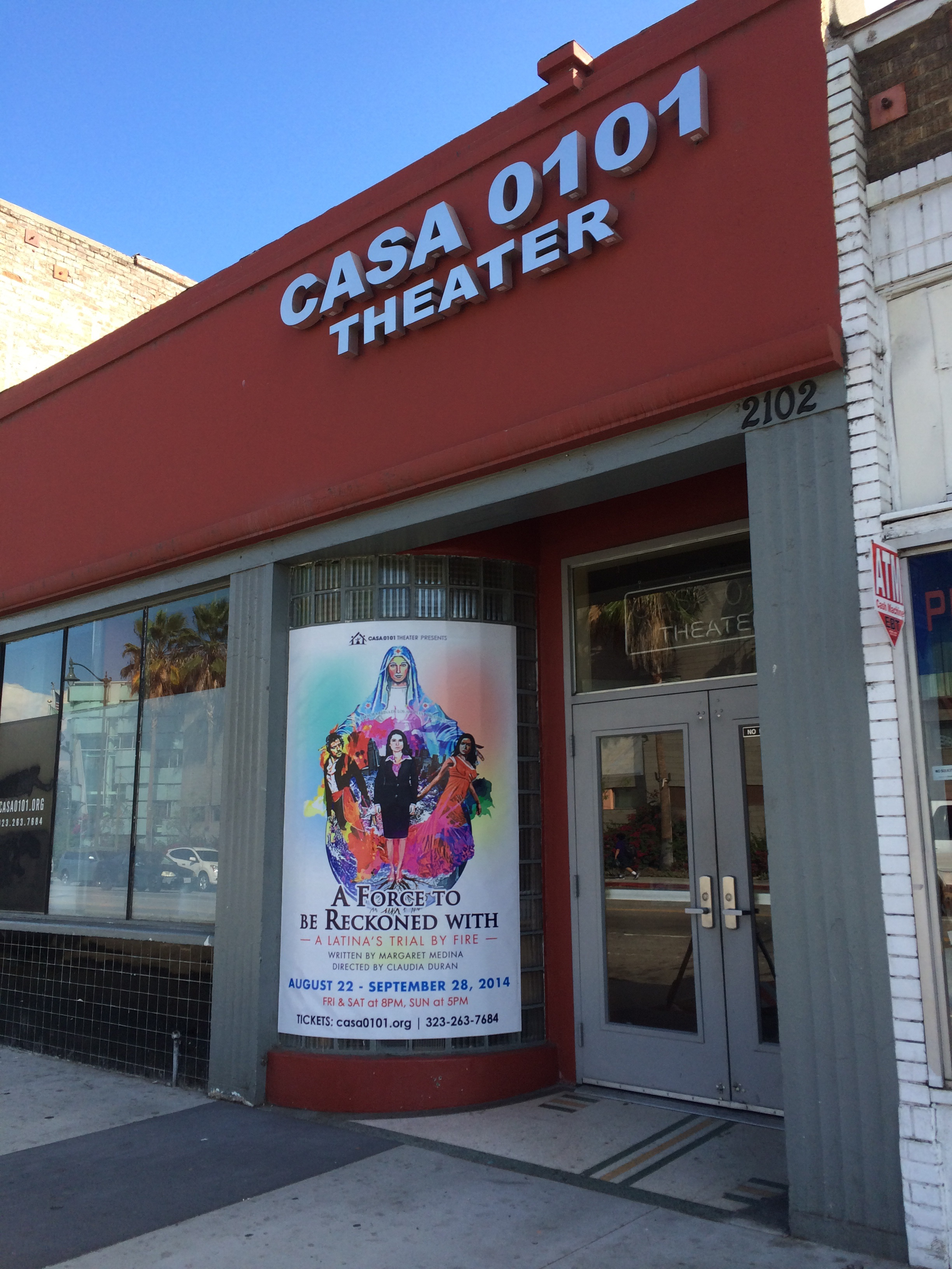 Photo of CASA 0101 Theater